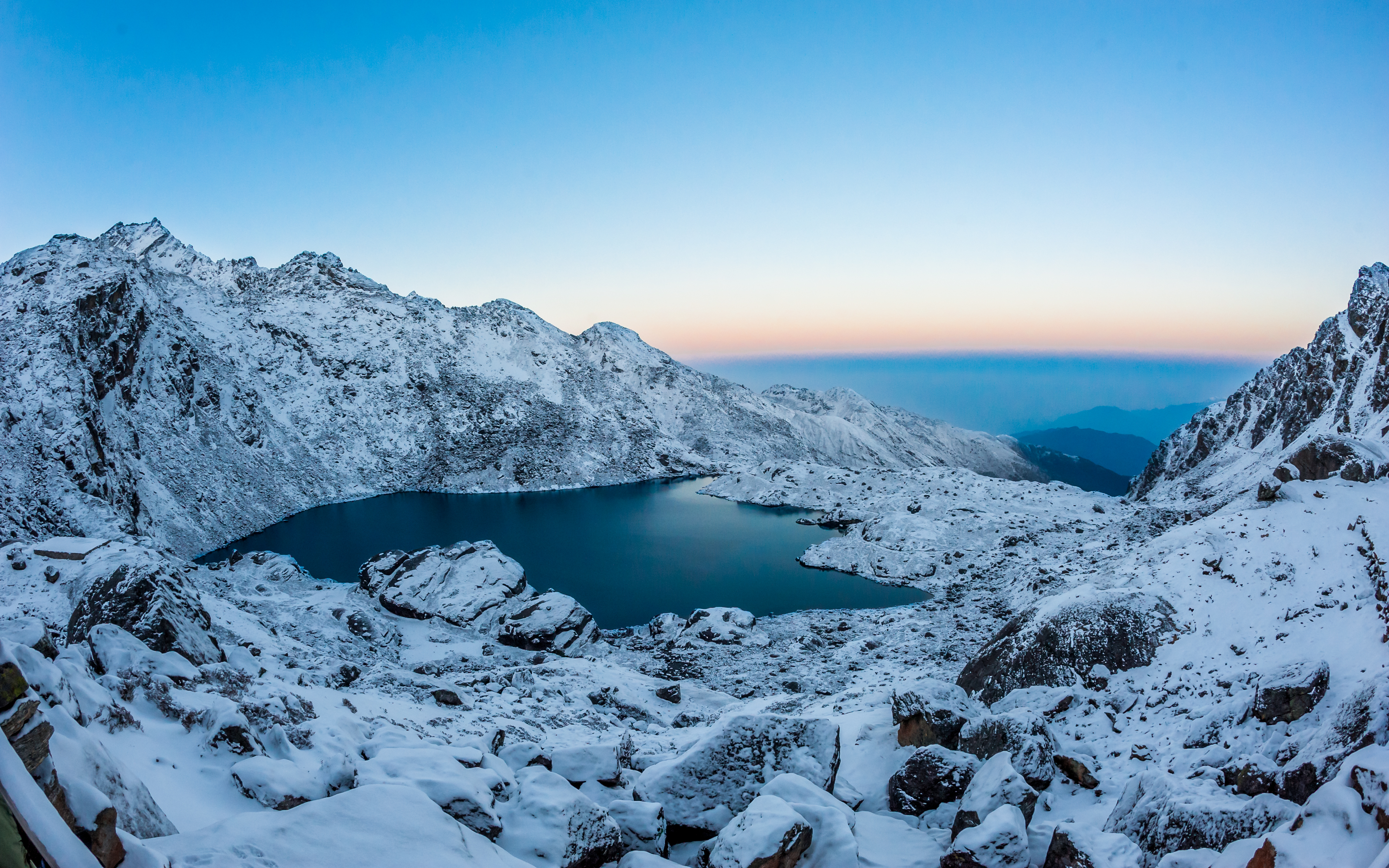 Bhairab kunda is the second lake in the region of Goasikunda. The Kunda is located in Rasuwa district of Nepal at an altitude of 4,240 m (13,910 ft).